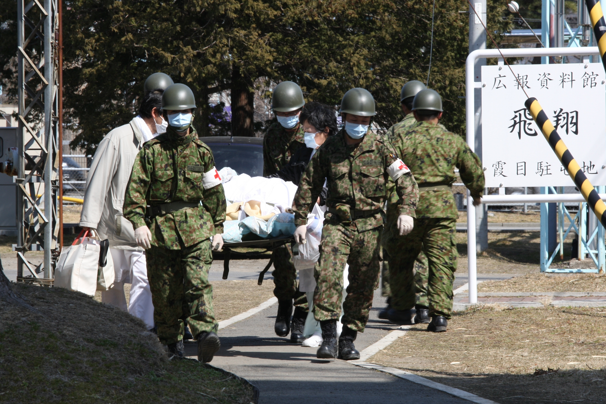 Title 23.3.13 ＥＡ：患者搬送（霞目駐屯地）.JPG Album 東日本大震災における災害派遣活動 医療支援活動